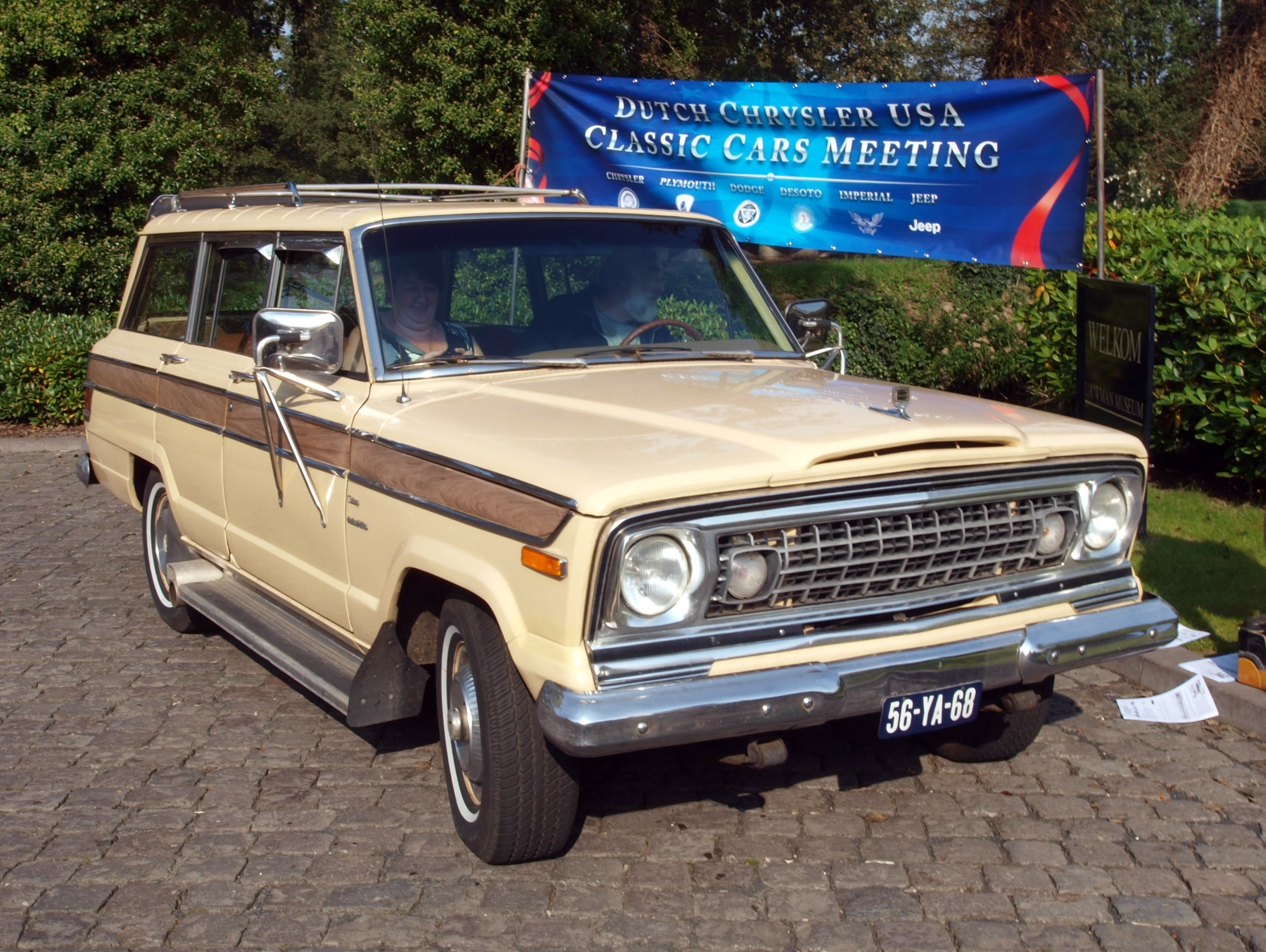 Photographed at the premmesis of the Louwman museum, The Hague, The Netherlands. OLYMPUS DIGITAL CAMERA